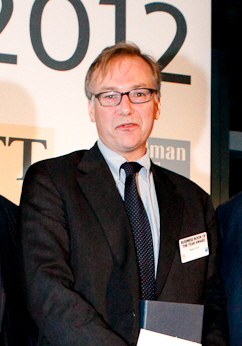 Steve Coll at Financial Times and Goldmans Sachs Business Book of the Year Award 2012